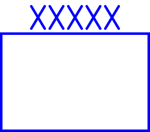 WWII code for an army group.